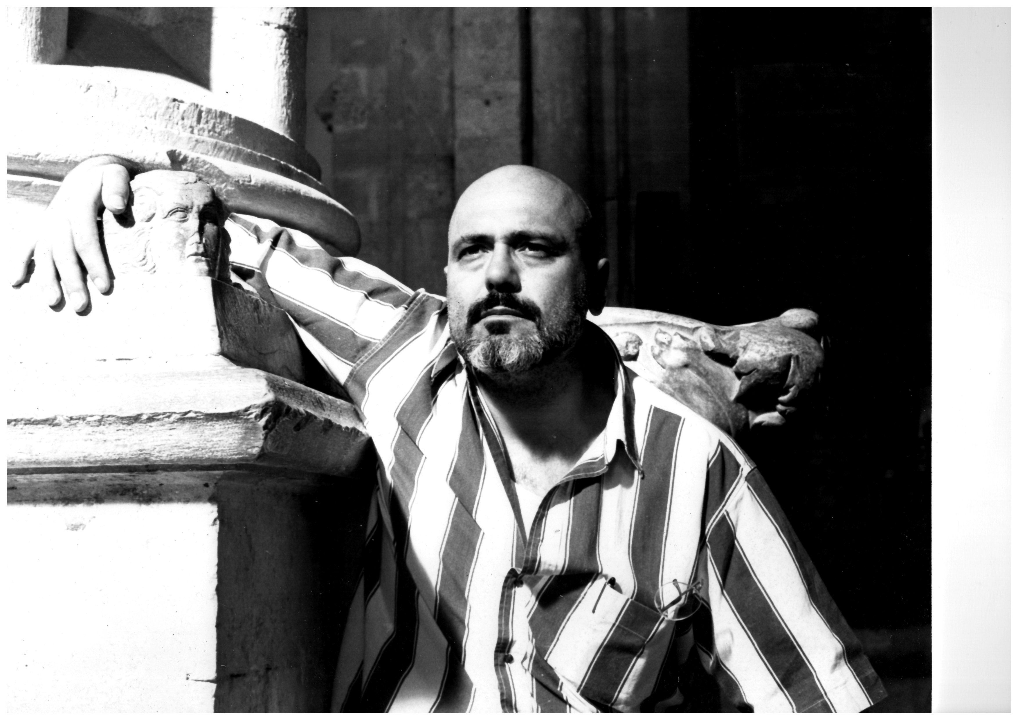 Portrait of Bruno Ceccobelli at San Fortunato (Todi, Italy) - 1998